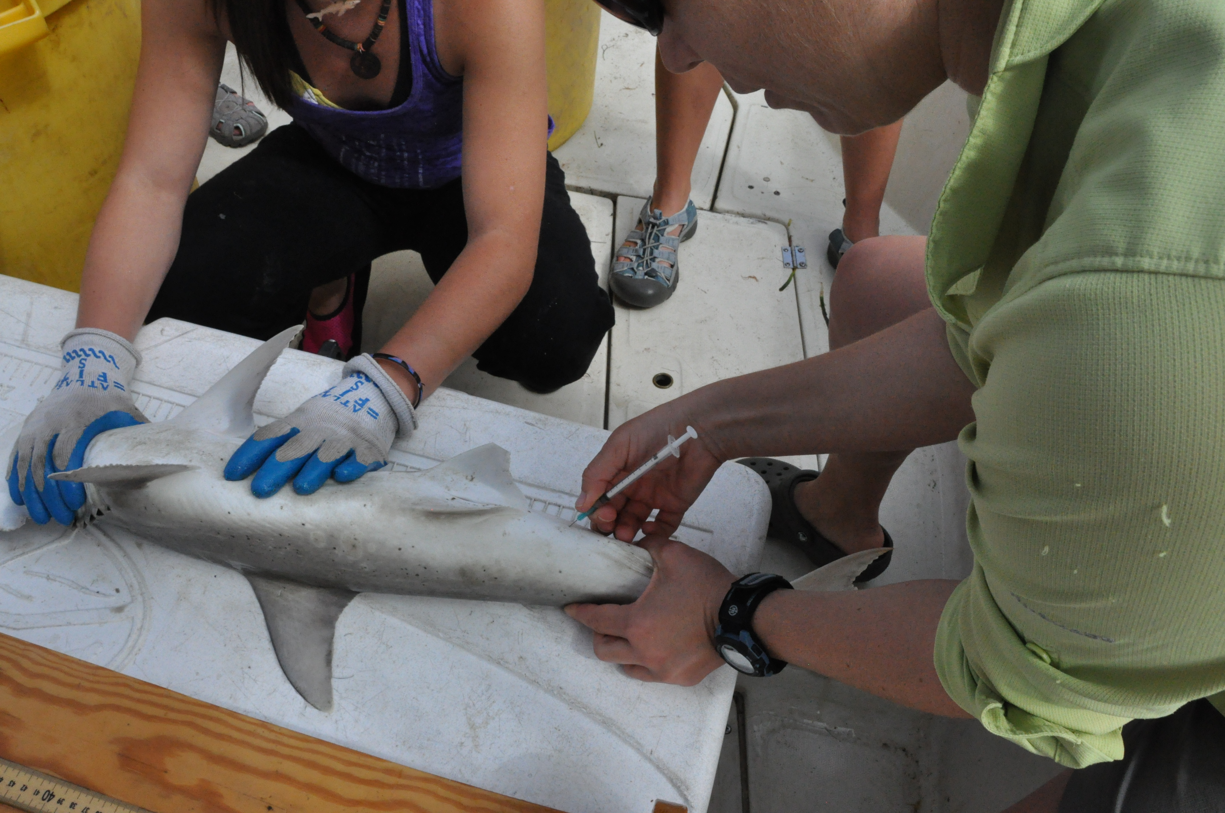 Dana Bethea, National Oceanic and Atmospheric Agency, Southeast Fisheries Science Center, Panama City Laboratory ecologist, takes a blood sample from a juvenile bonnethead during their Gulf of Mexico Shark Pupping and Nursery Survey off the shores of Tyndall Air Force Base, Fla. April 25, 2013. (U.S. Air Force photo by Senior Airman Christopher Reel)